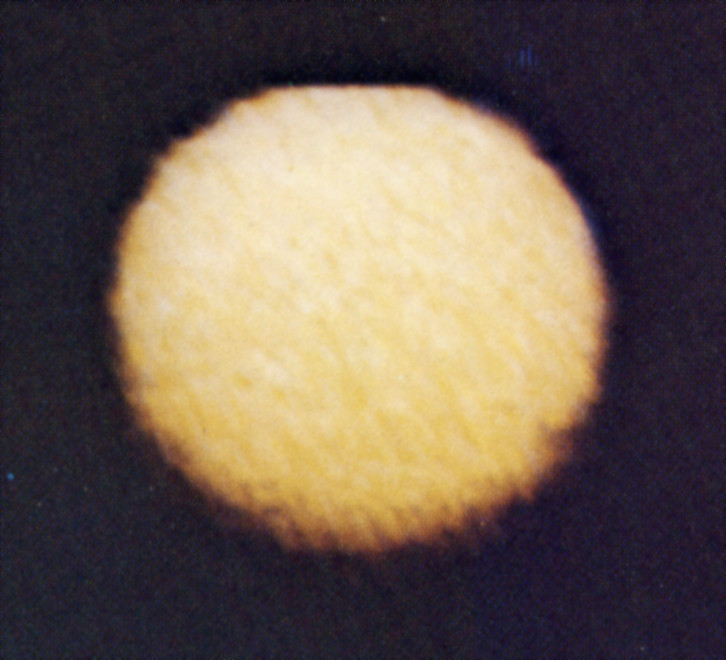 After leaving Saturn behind, Pioneer 11 passed the moon Titan at a distance of 360,000 kilometres on 2 September 1979 at 1848 UT (0448 3 September AEST). The spacecraft took five images from which was constructed this picture of Titan.